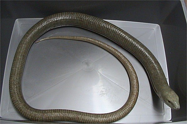 Ophisaurus apodus; animal courtesy of Austin Reptile Service.